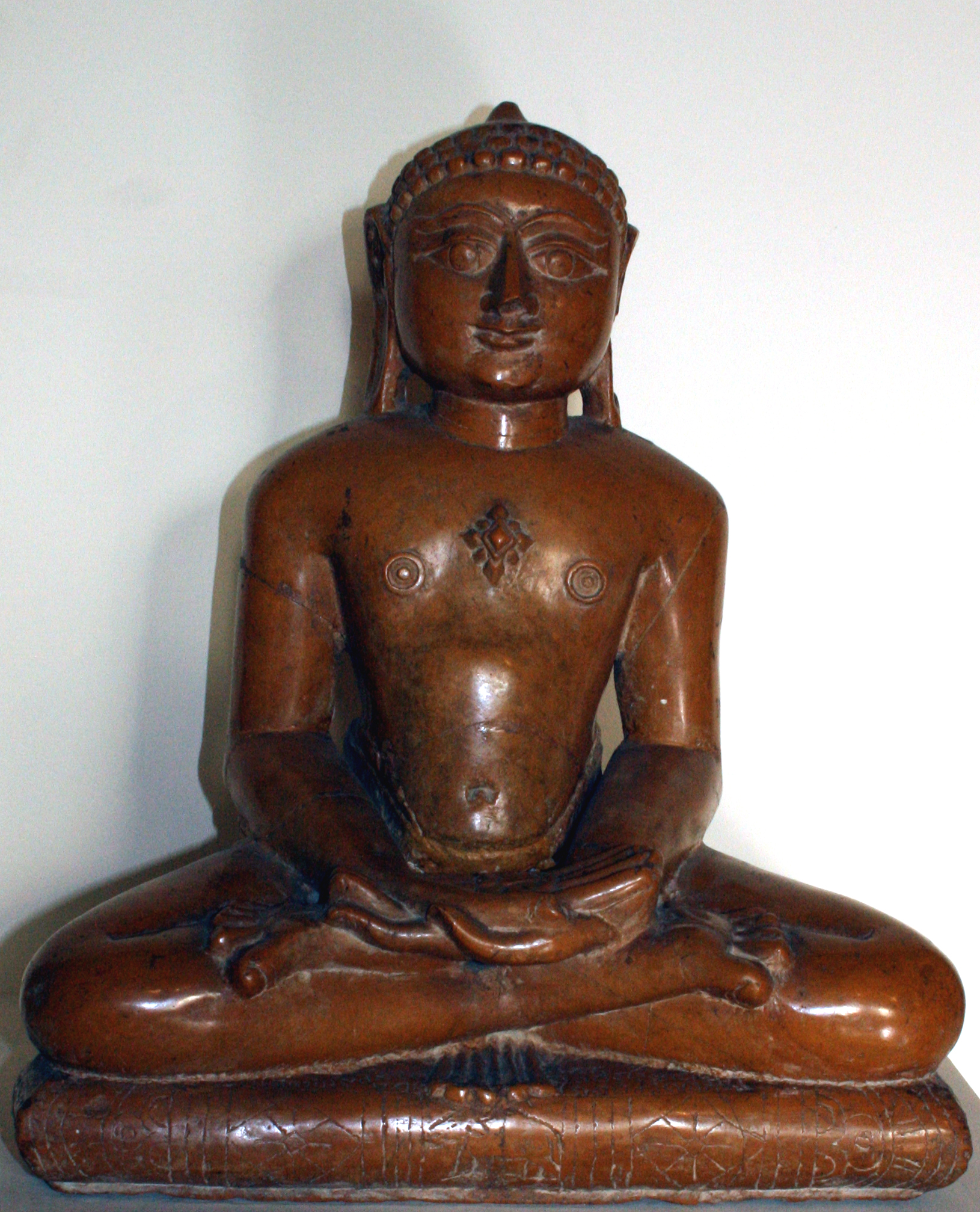 Mahavira - Spiritual leader (Jain) of the Jainism